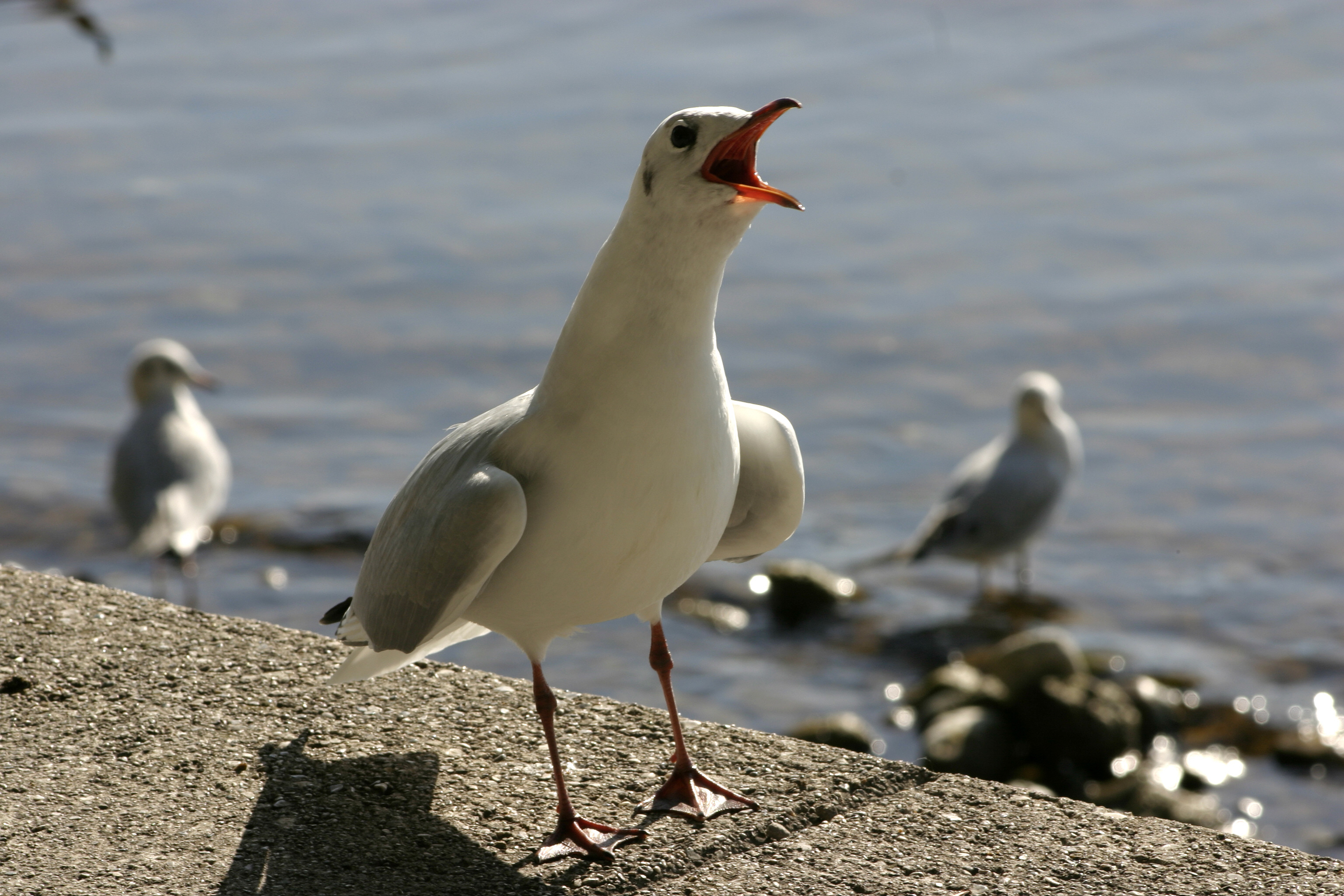 Black-headed Gull